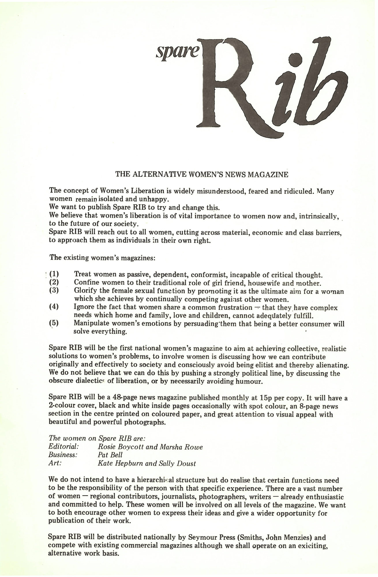 The founders of Spare Rib set out to set the record straight on Women’s Liberation, which had been trivialised and ridiculed by the mainstream press. They sought to reach out to all women and in their manifesto they explain what is wrong with women’s magazines of the day and how their alternative would offer realistic solutions to the problems experienced by women - See more at